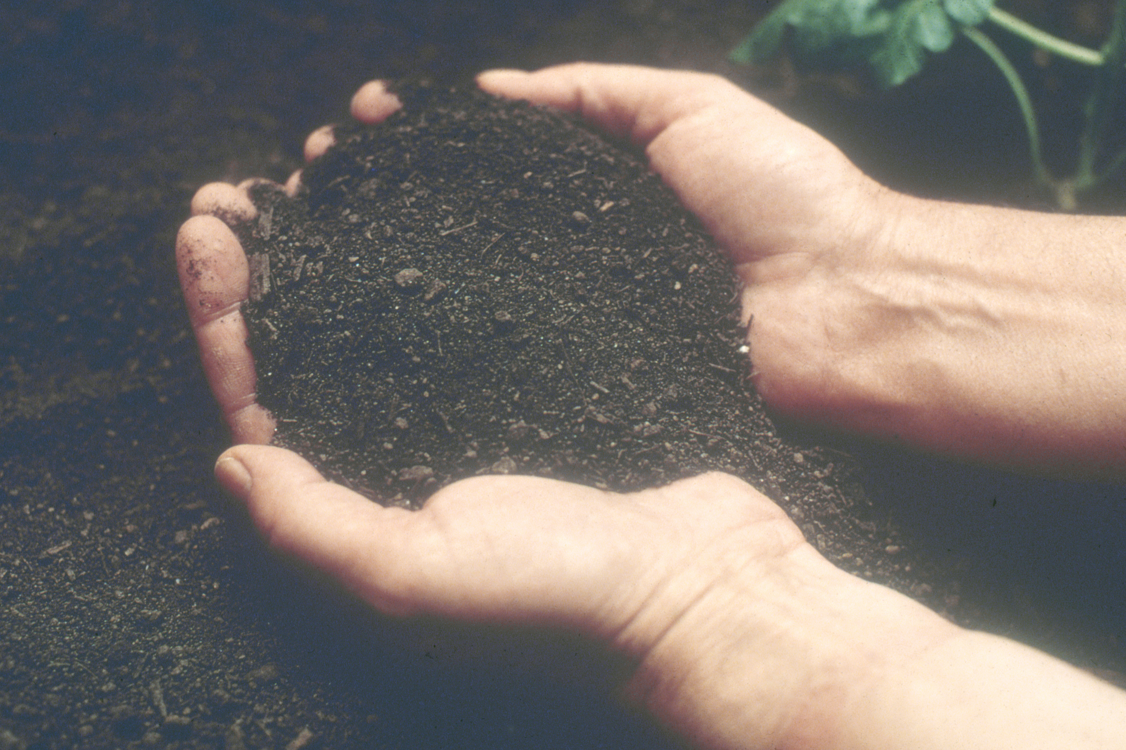 Close-up of hands holding soil. This image or file is a work of a United States Department of Agriculture employee, taken or made as part of that person's official duties. As a work of the U.S. federal government, the image is in the public domain.